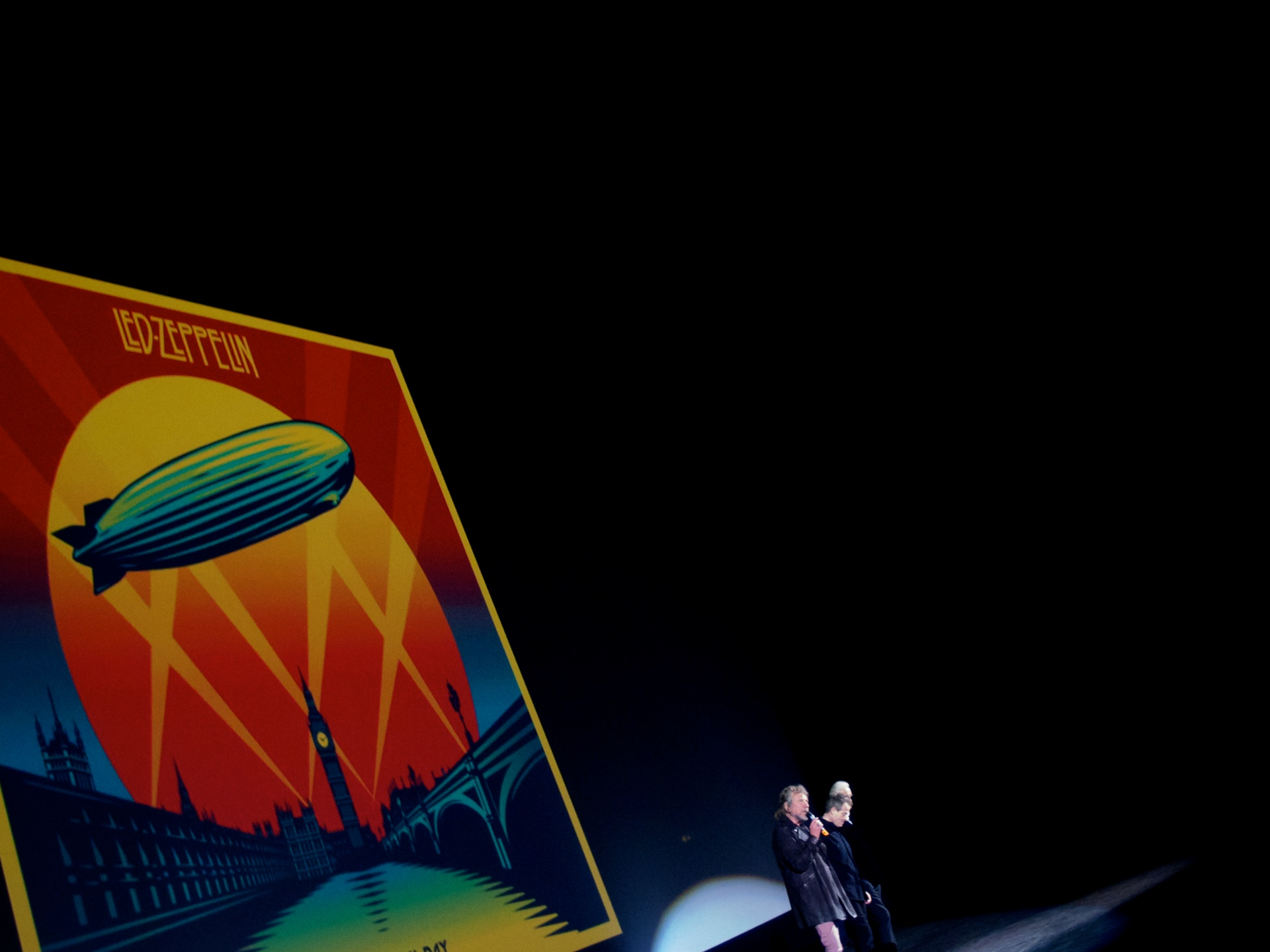 Led Zepplin talking to press about the film Celebration Day at premiere at the Hammersmith Apollo in London, England, United Kingdom